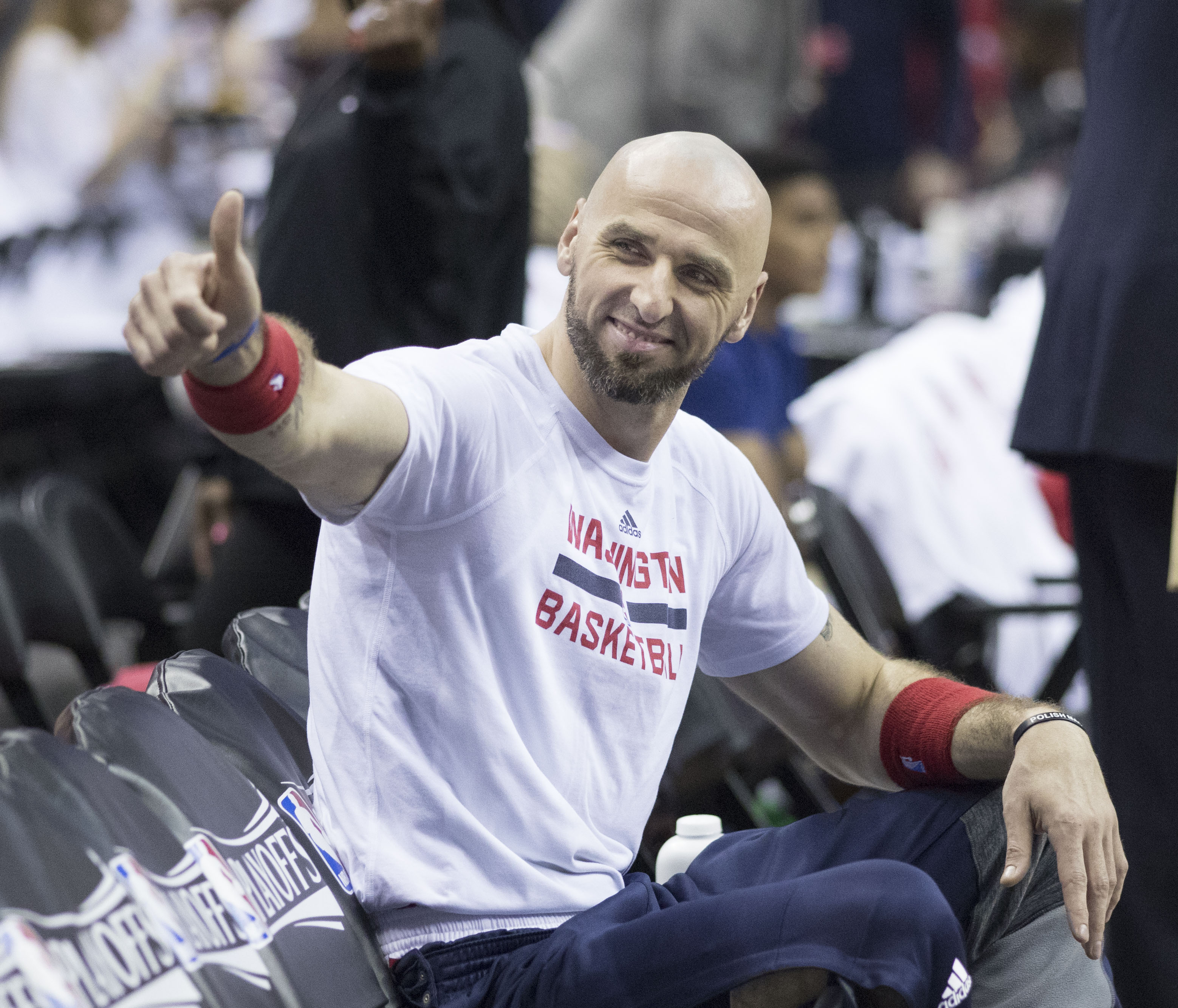 Hawks at Wizards Round 1 Playoffs 4/16/17